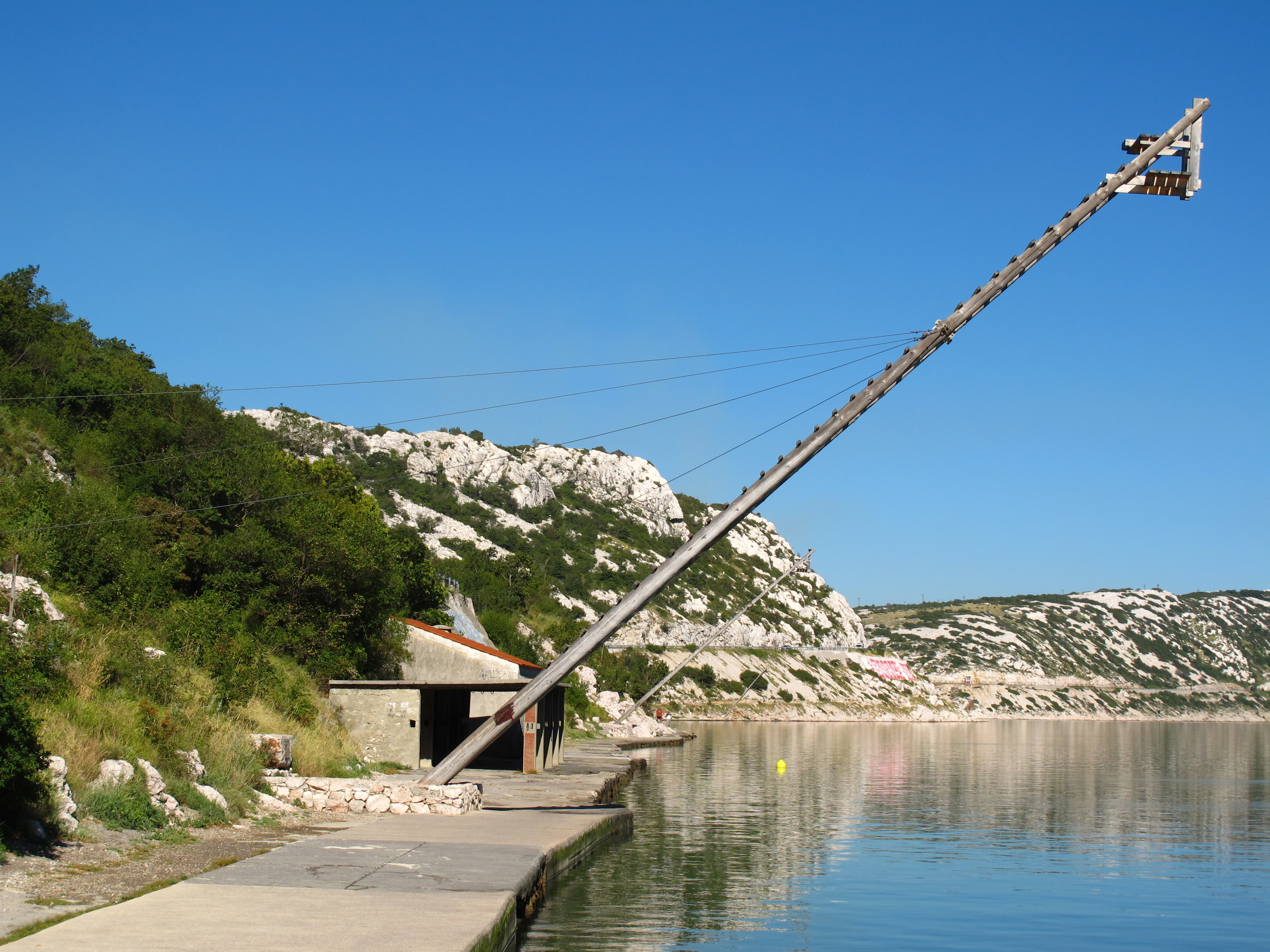 Ladders for tracking tuna shoals near the village of Bakarac in Bay of Bakar / Croatia / Adriatic Sea. Above goes by the street Adriatic Highway (Adriatic coastal road).